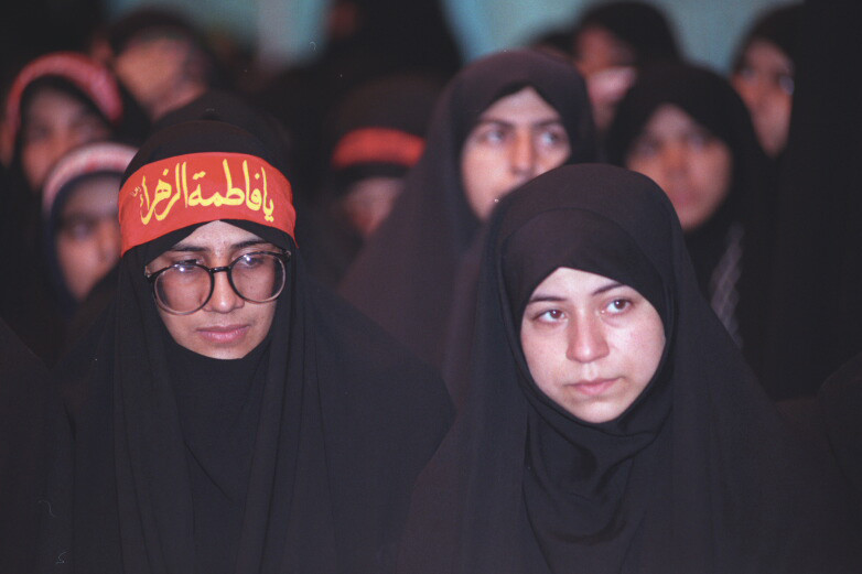 Basiji Students meeting with Supreme Leader of Iran, Ali Khamenei - September 4, 1999